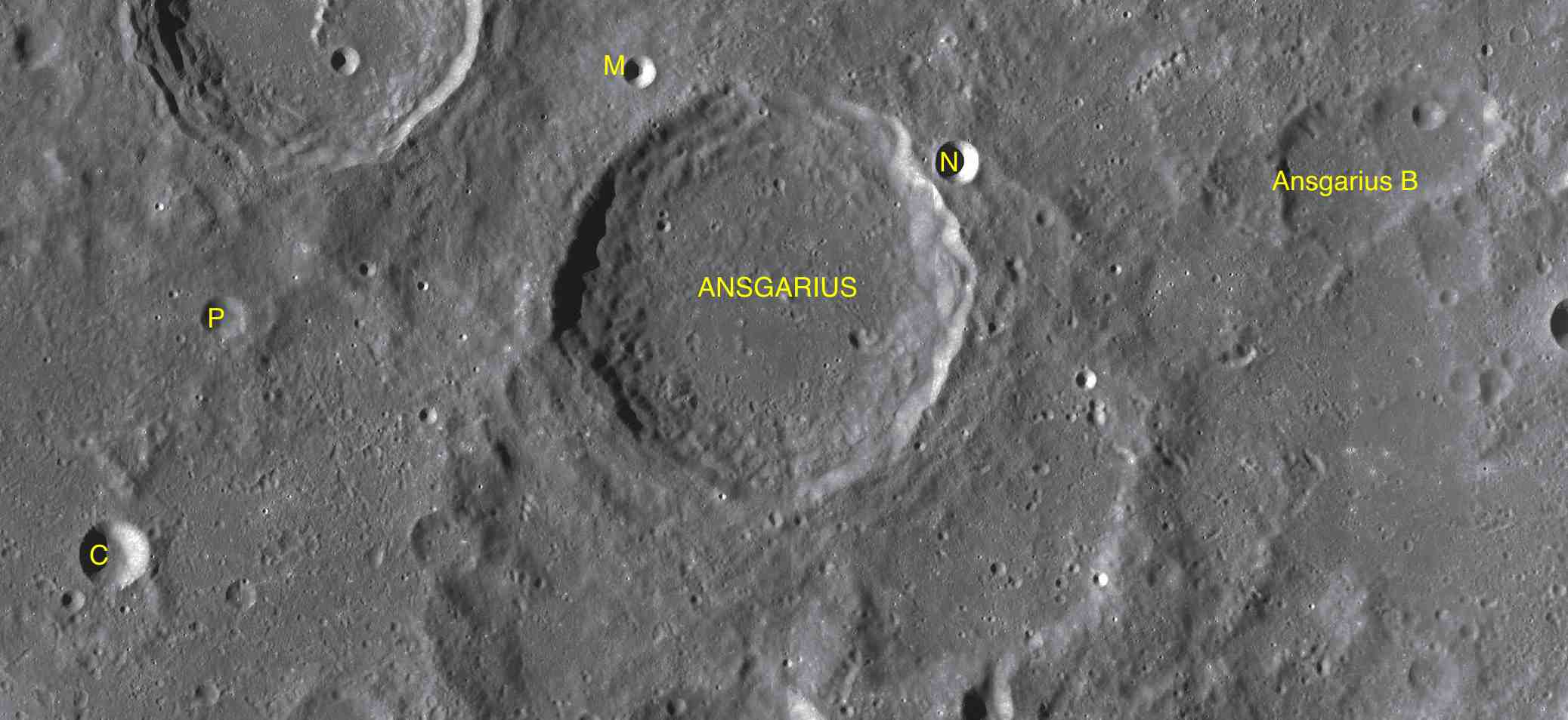 Part of the chart LAC-81 used for the presentation